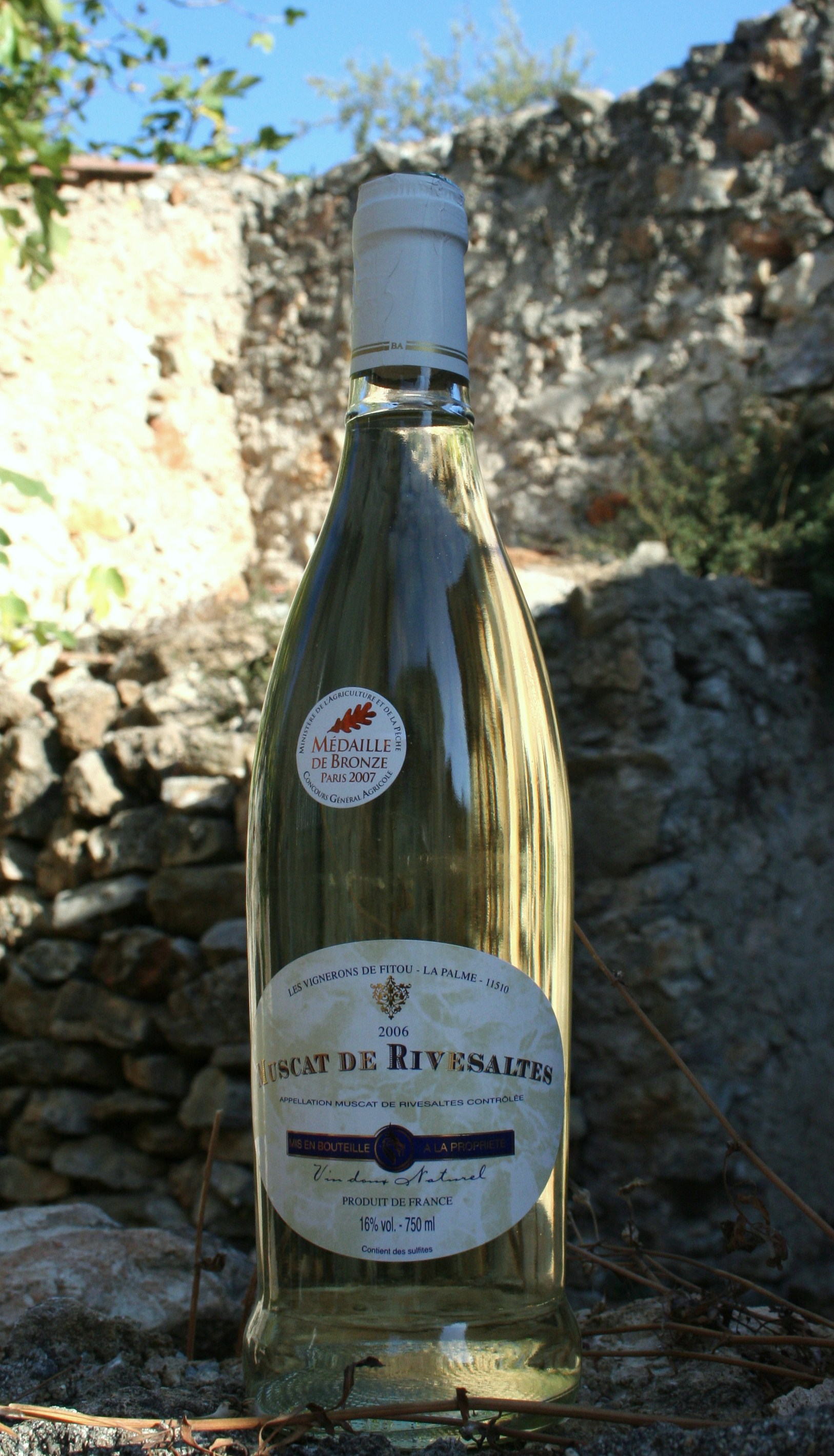 Fortified French wine (VDN or Vin Doux Naturels) made in the Roussillon region.